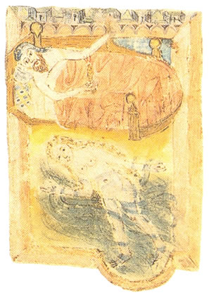 Woman taking a ritual bath before she joins her husband. German miniature, 1427